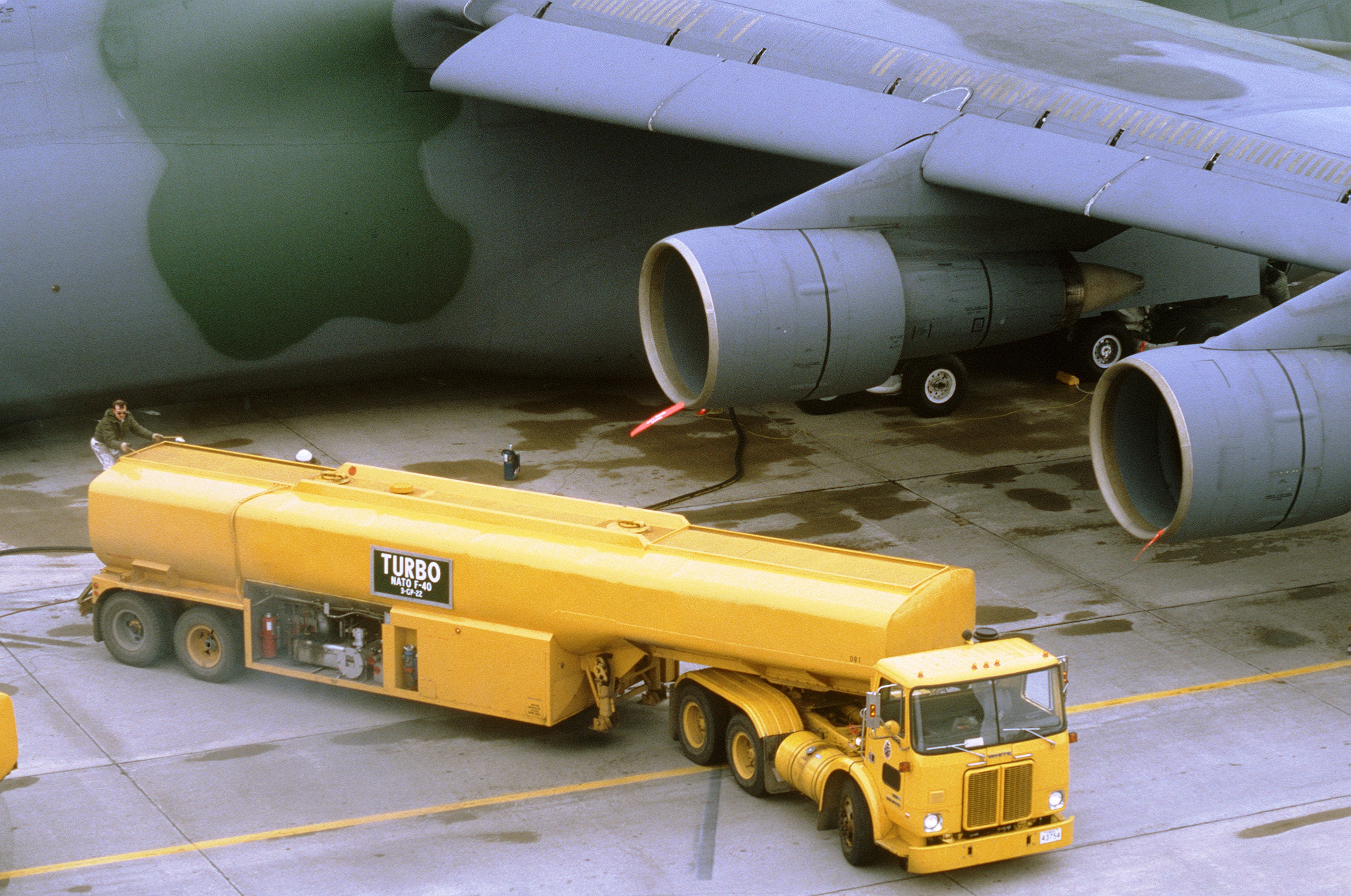 A fuel truck refuels a 60th Military Airlift Wing C-5A Galaxy on the flight line at CFB Edmonton.